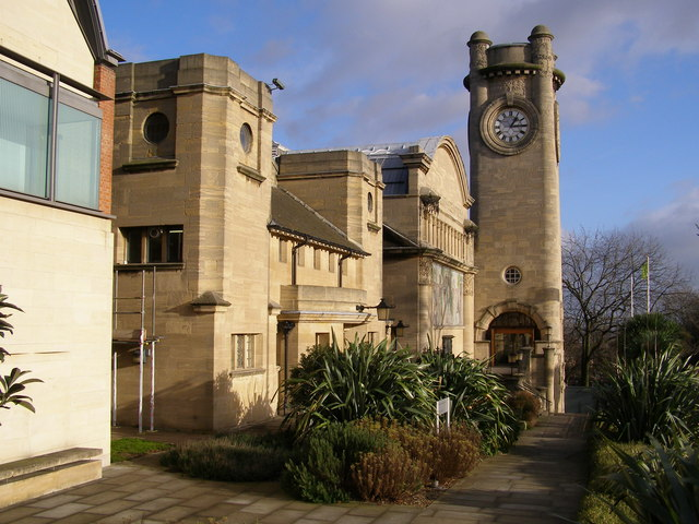 The main south facing frontage of the Museum Building, alongside London Road.